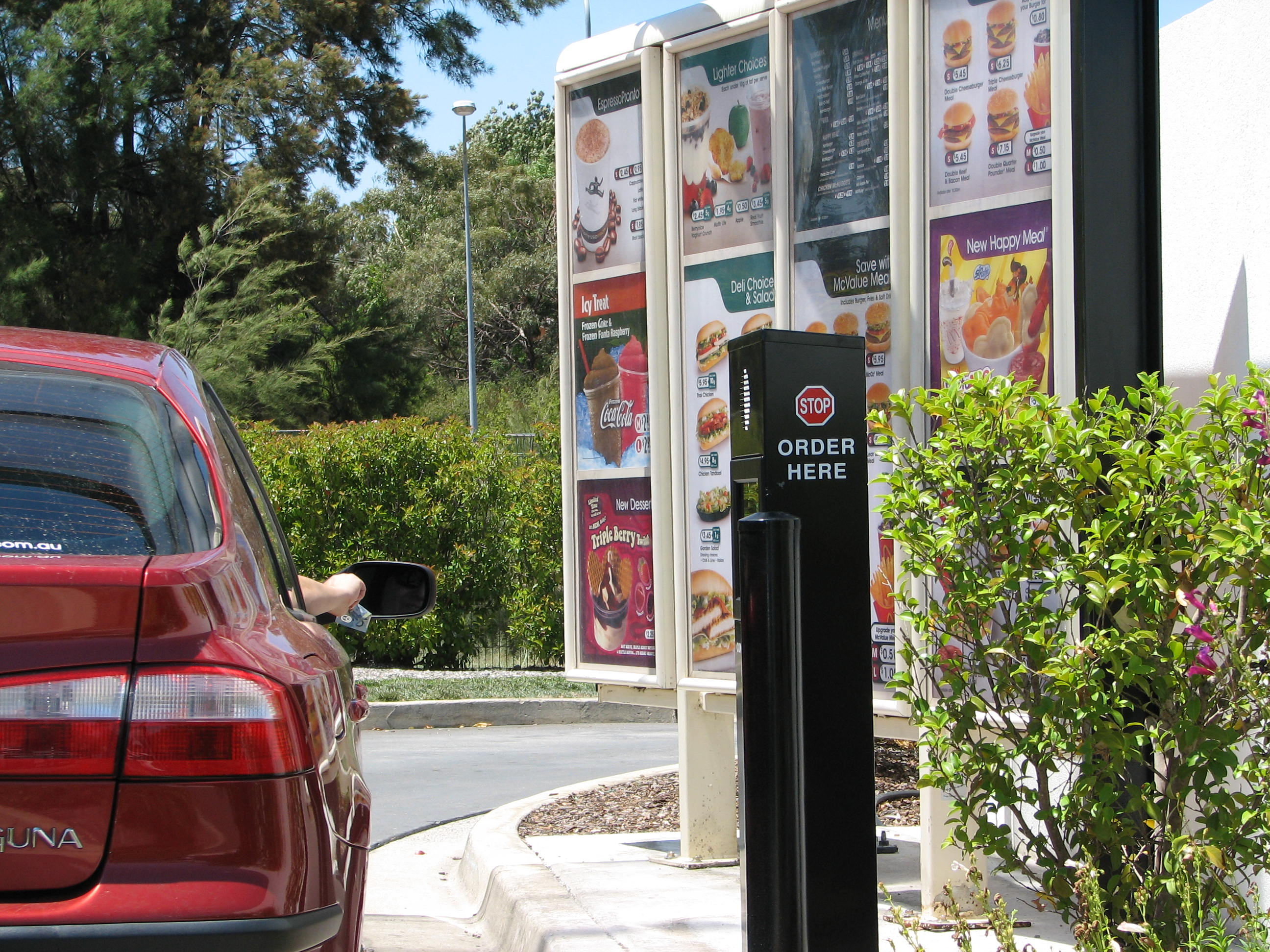 A car orders lunch at the McDonalds drive-thru in Charnwood, Australian Capital Territory.